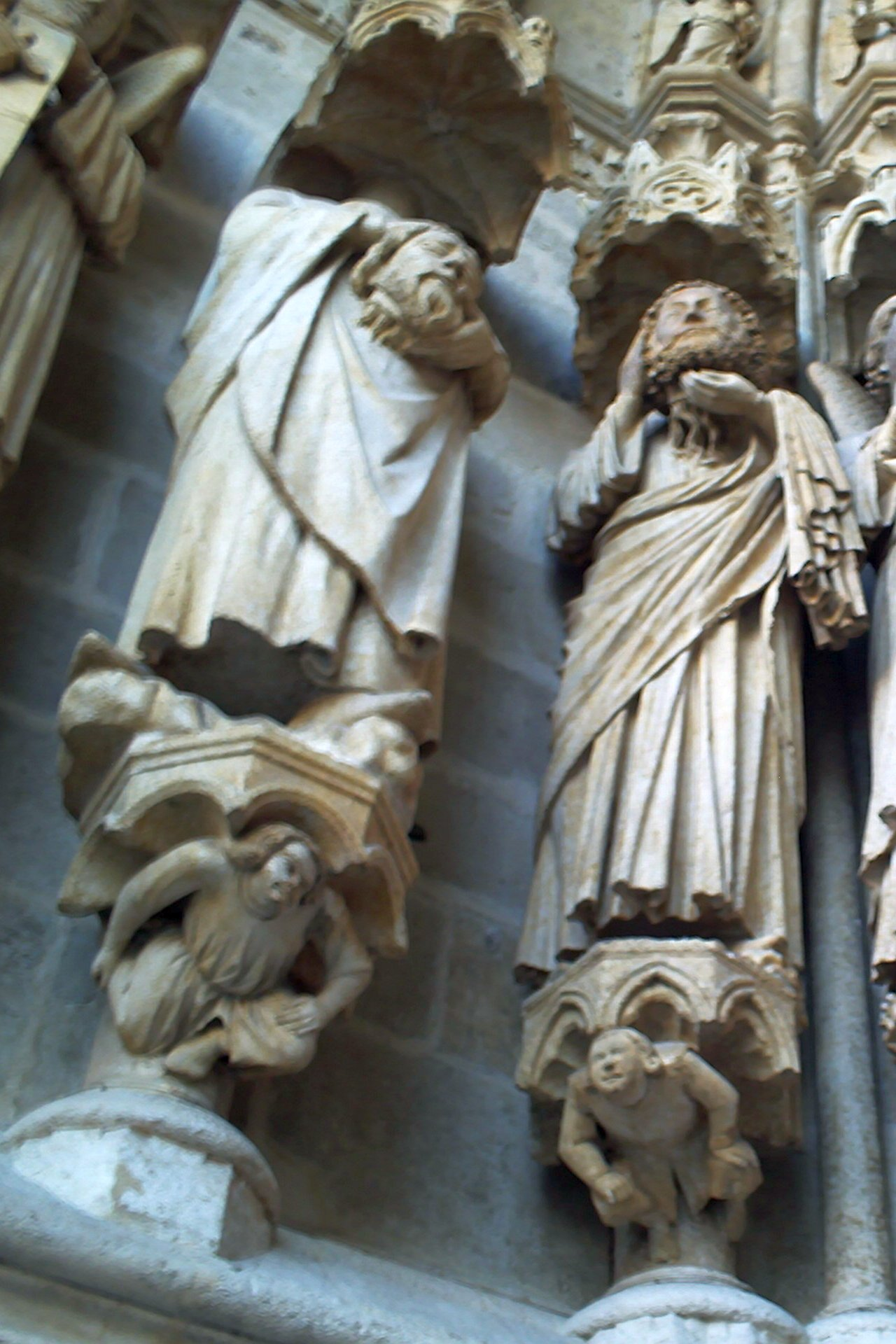 Saints Ache and Acheul (and not Victoricus and Gentian), local martyrs of Amiens